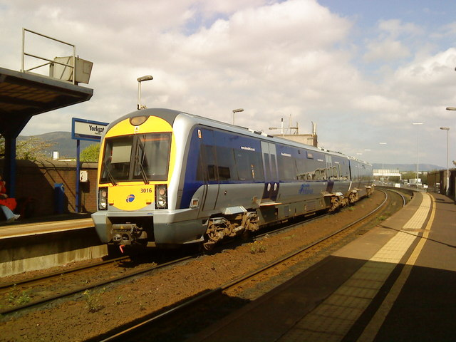 The 12:52 to Londonderry leaves Yorkgate station. J3475 :: The 12:52 to Londonderry leaves Yorkgate station, near to Skegoneill, Cliftonville, Belfast County Borough, Shankill and Queens Island, Ireland